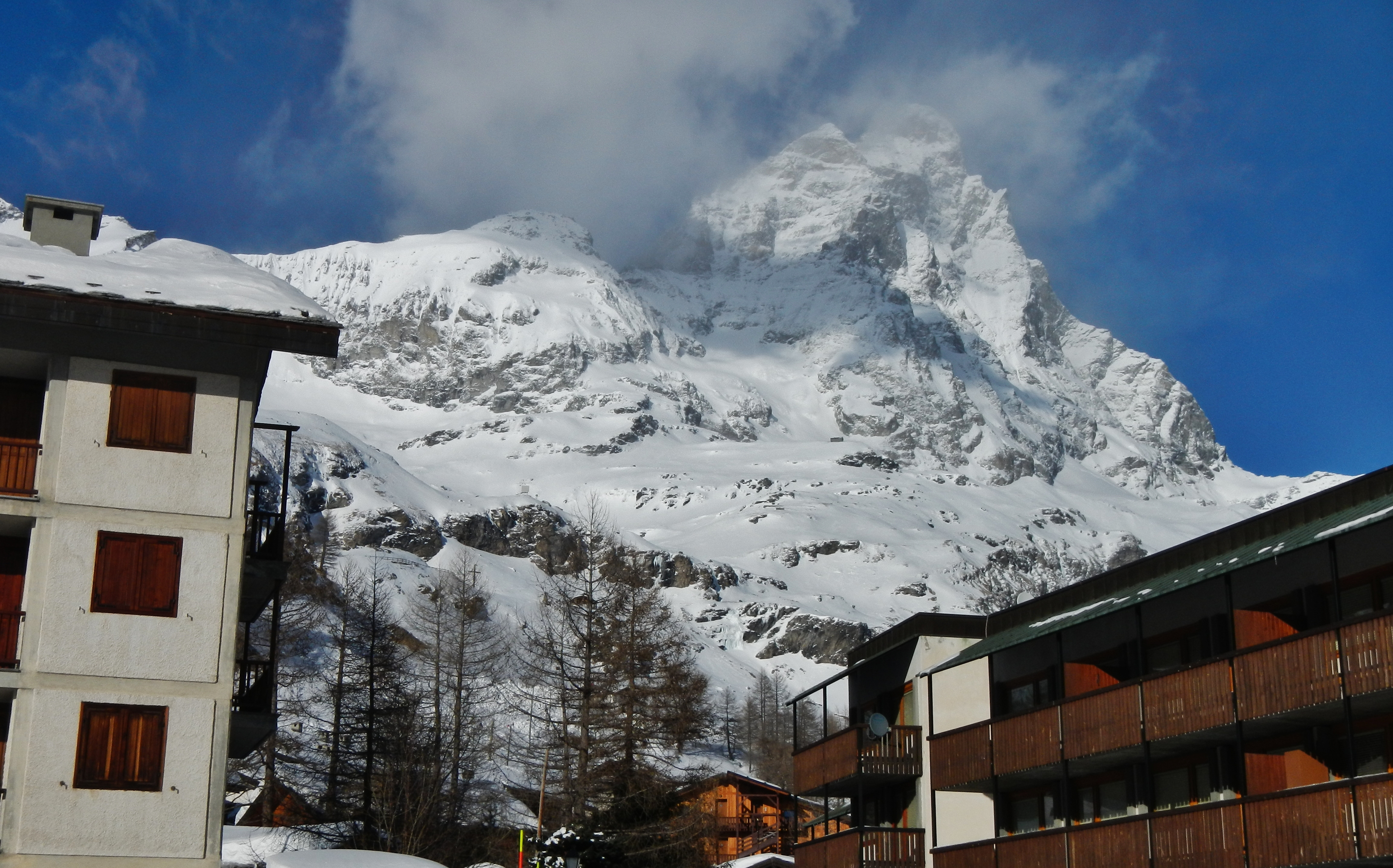 Breuil-Cervinia, view to Matterhorn